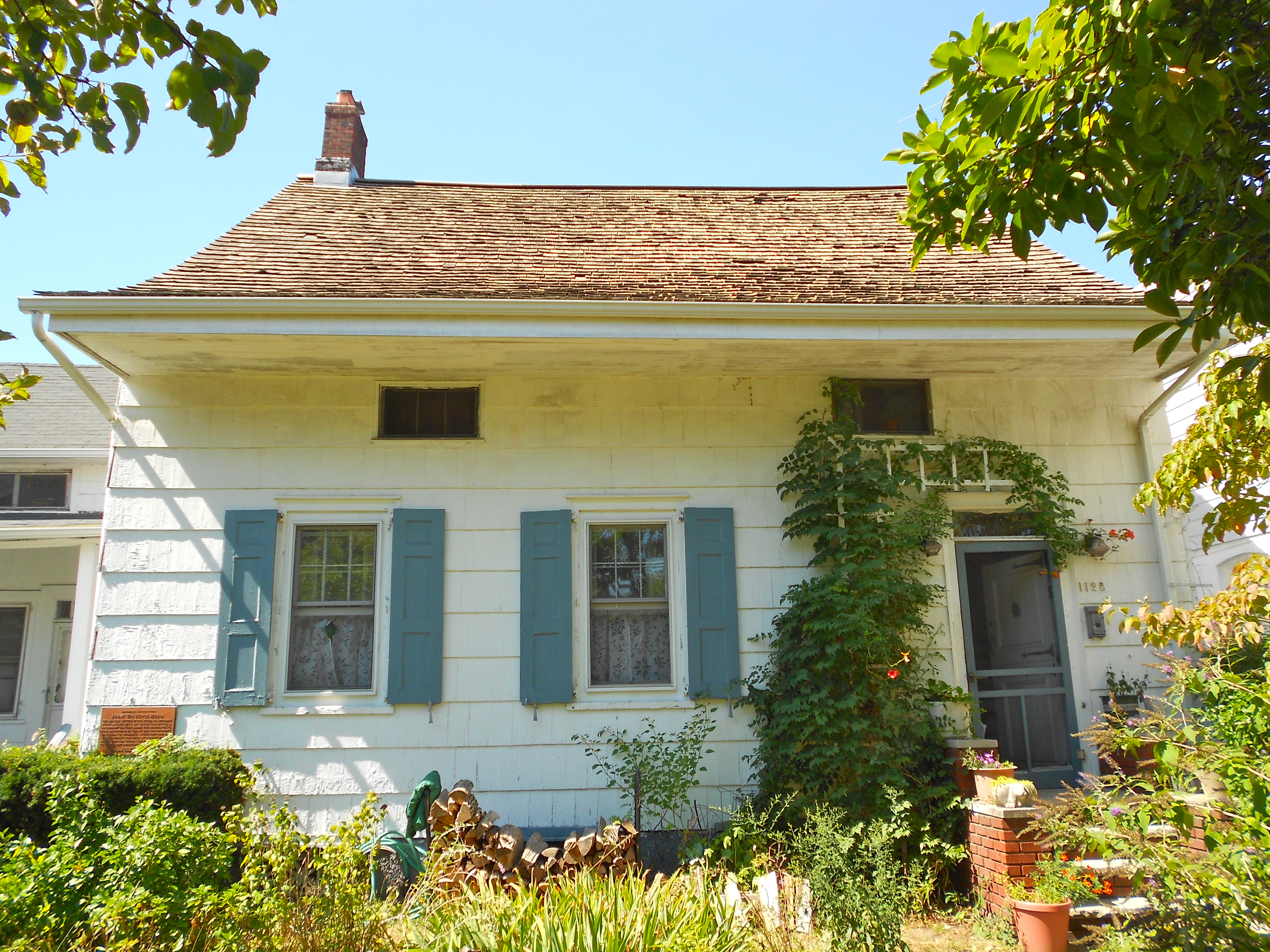 Joost Van Nuyse House Listed on the NRHP on June 9, 2006. At 1128 E. 34th St., Flatlands, Brooklyn, New York. The small house was built before this larger part which is c. 1790.